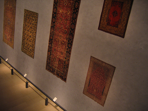 Lyon in France - museum